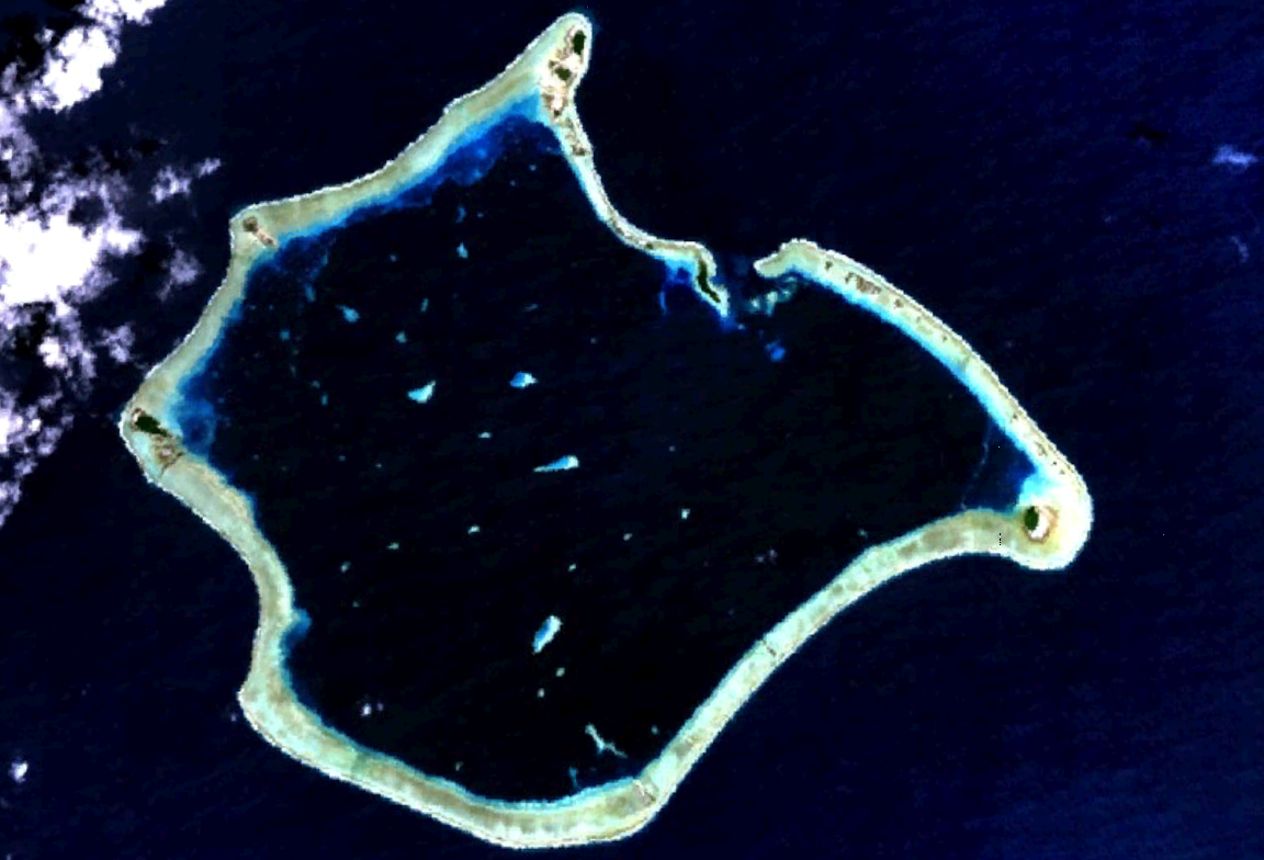 Suwarrow atoll, part of the Cook Islands. Satellite picture.